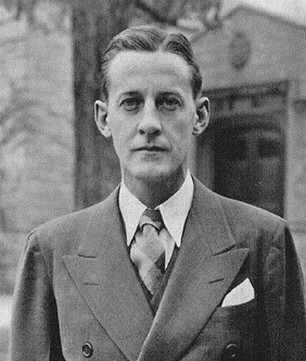 Photograph of Missouri baseball coach Hi Simmons